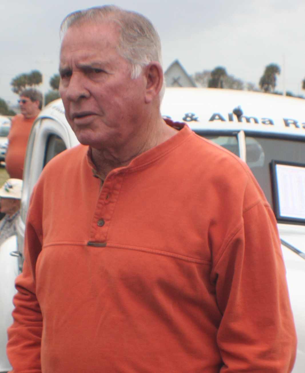 A crop of a flickr image of David Pearson taken in Daytona. Shot by "The Daredevil" at Daytona during Speedweeks 2008